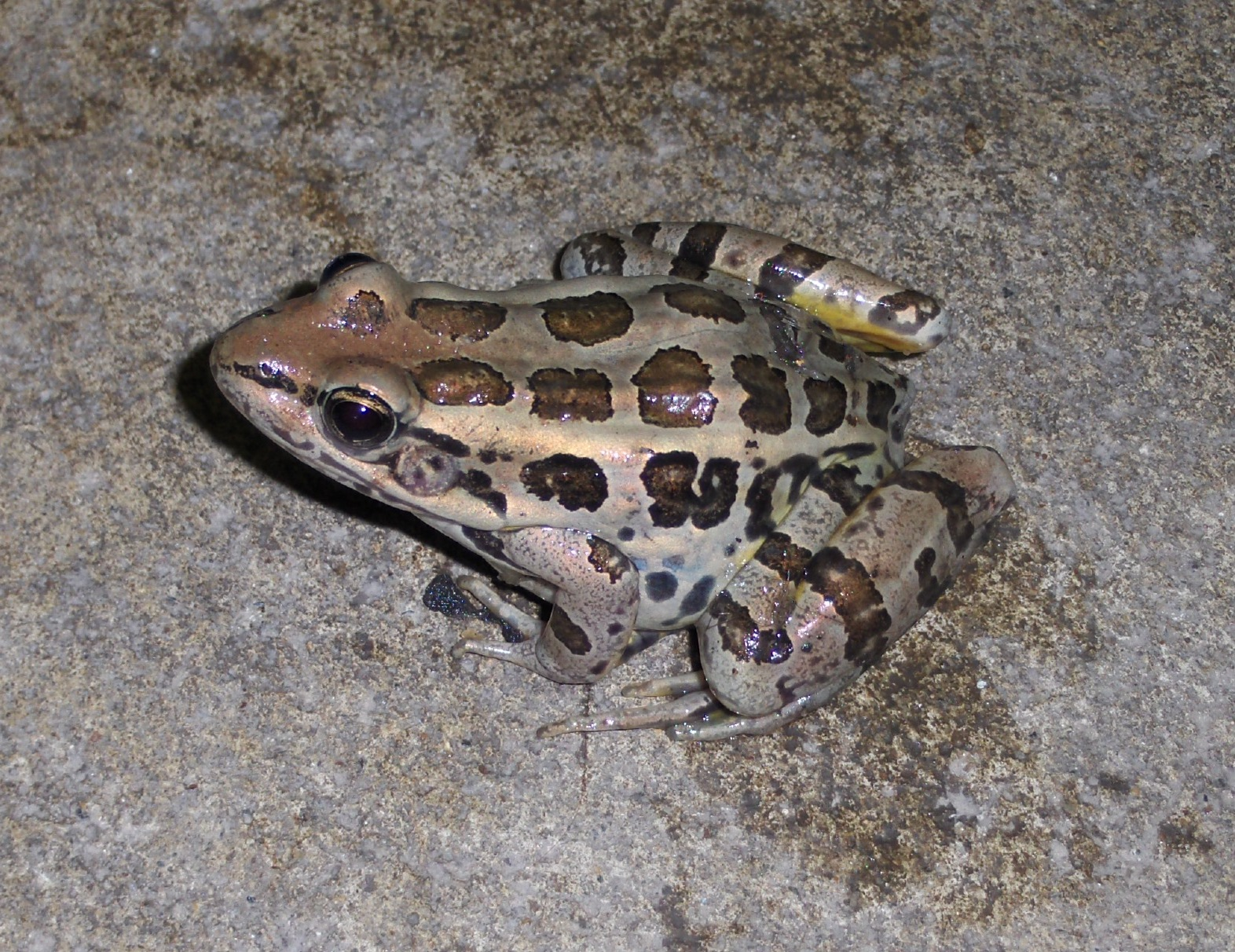 Side view of a Pickerel frog (Rana palustris) in Souderton, Pennsylvania. The frog was found on the Perkiomen Trail in Spring Mount, PA. It was photographed in Souderton, PA, while sitting on a concrete floor.